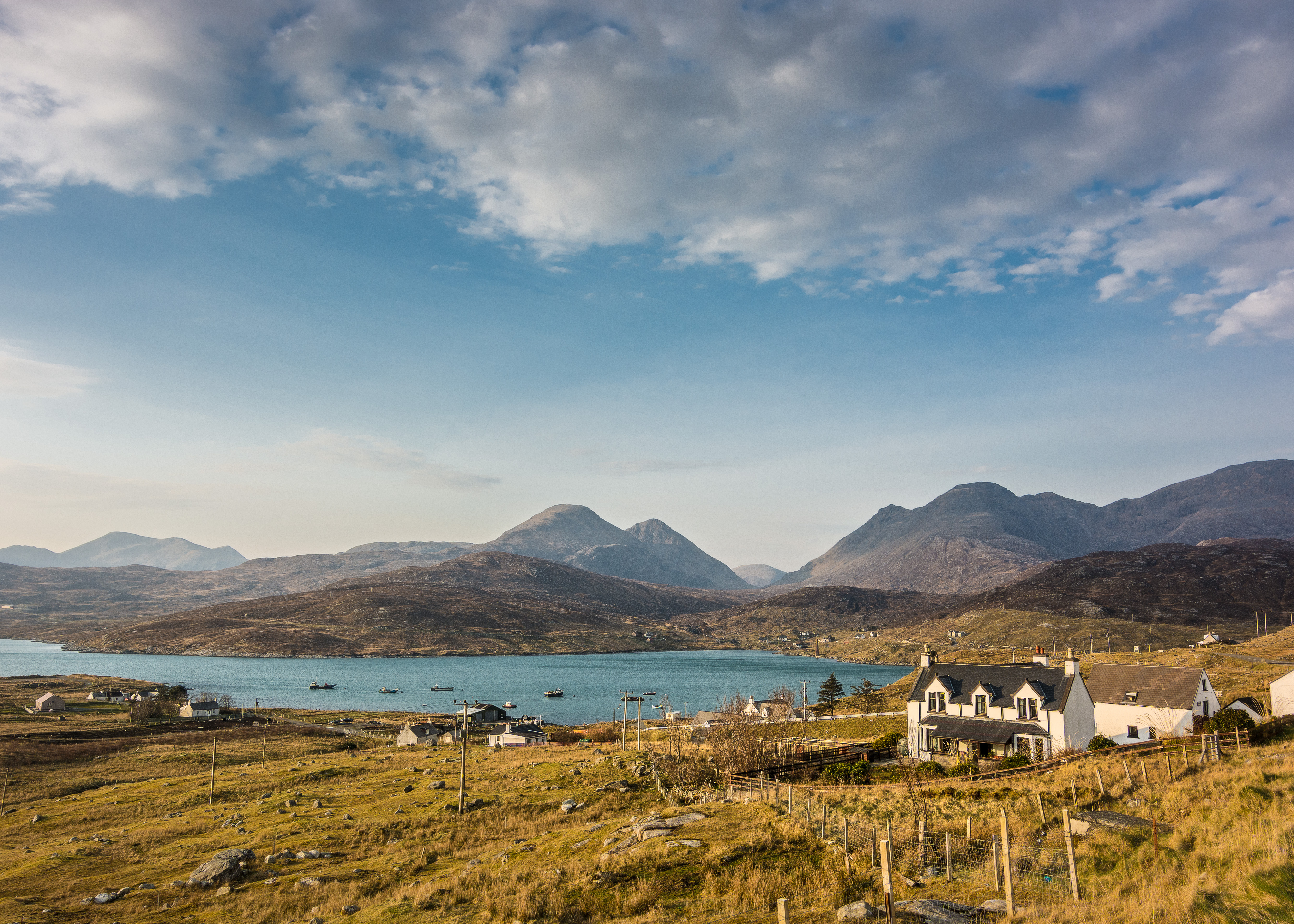 Ardhasaig with Clisham, the highest point on Harris & Lewis just to left of centre. Next to the shore just to the right of centre you can just make out the tall chimney stack of the old whaling station.